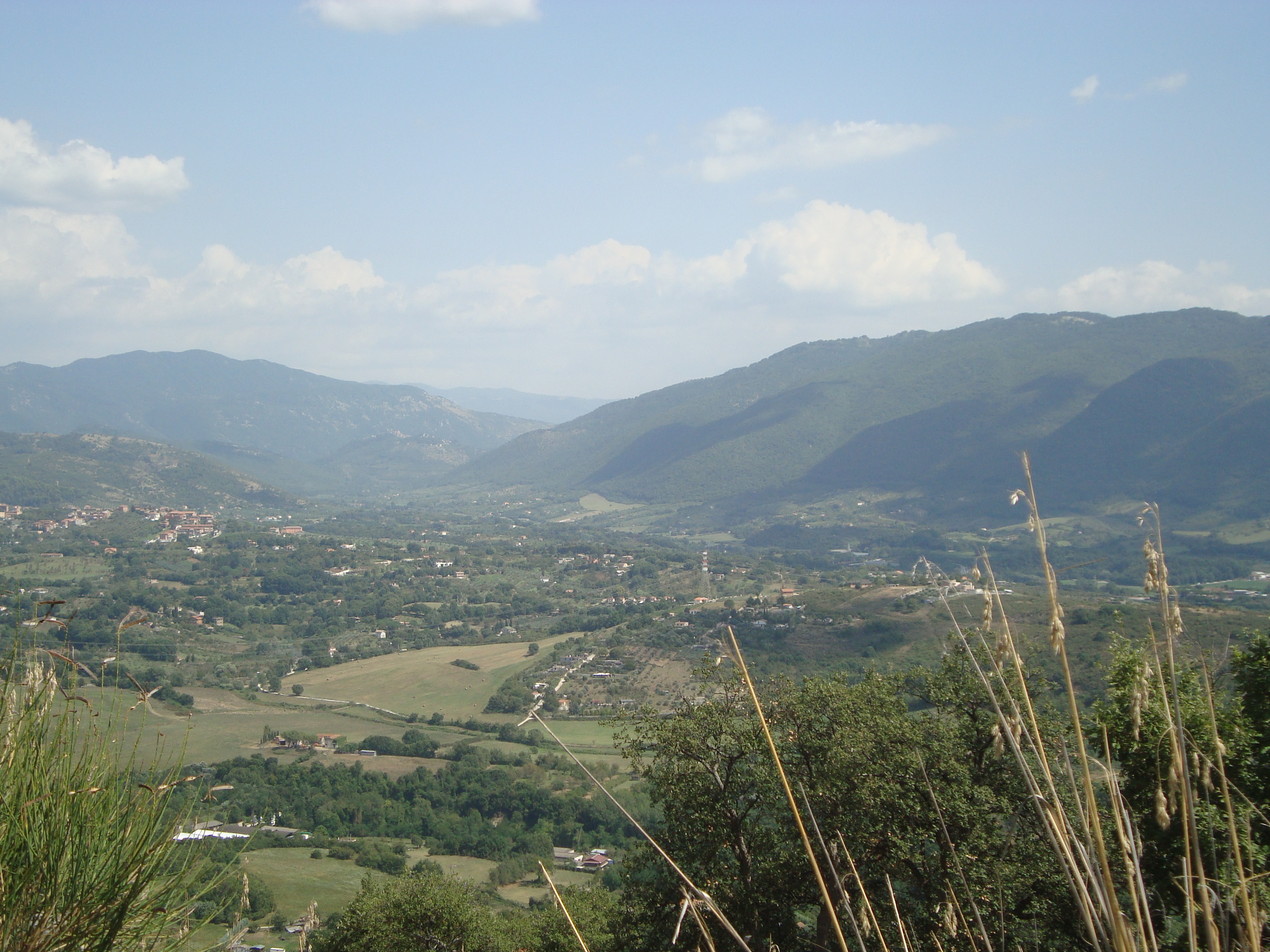 The Aniene Valley north of Tivoli with the Prenestian Mounts